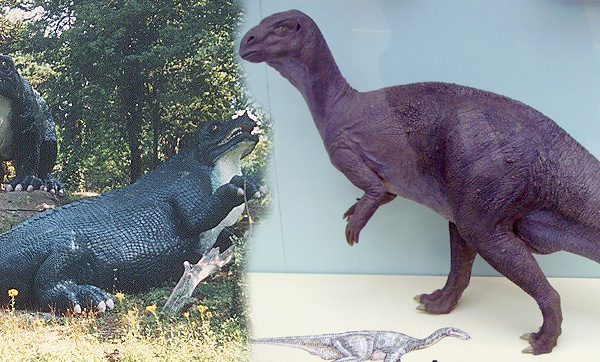 Created from Image:Iguanodons crystal palace email.jpg and Image:Iguanodon model.JPG.